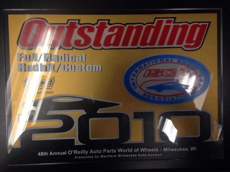 A 2010 ISCA Outstanding Award for "Full/Radical Hardtop or Custom". One Outstanding Award counts as a single ISCA-Championship point. Four points (or four of these awards) will lock a contender into the Championship Finals, held every year in Chicago, the weekend directly after Cobo Hall.